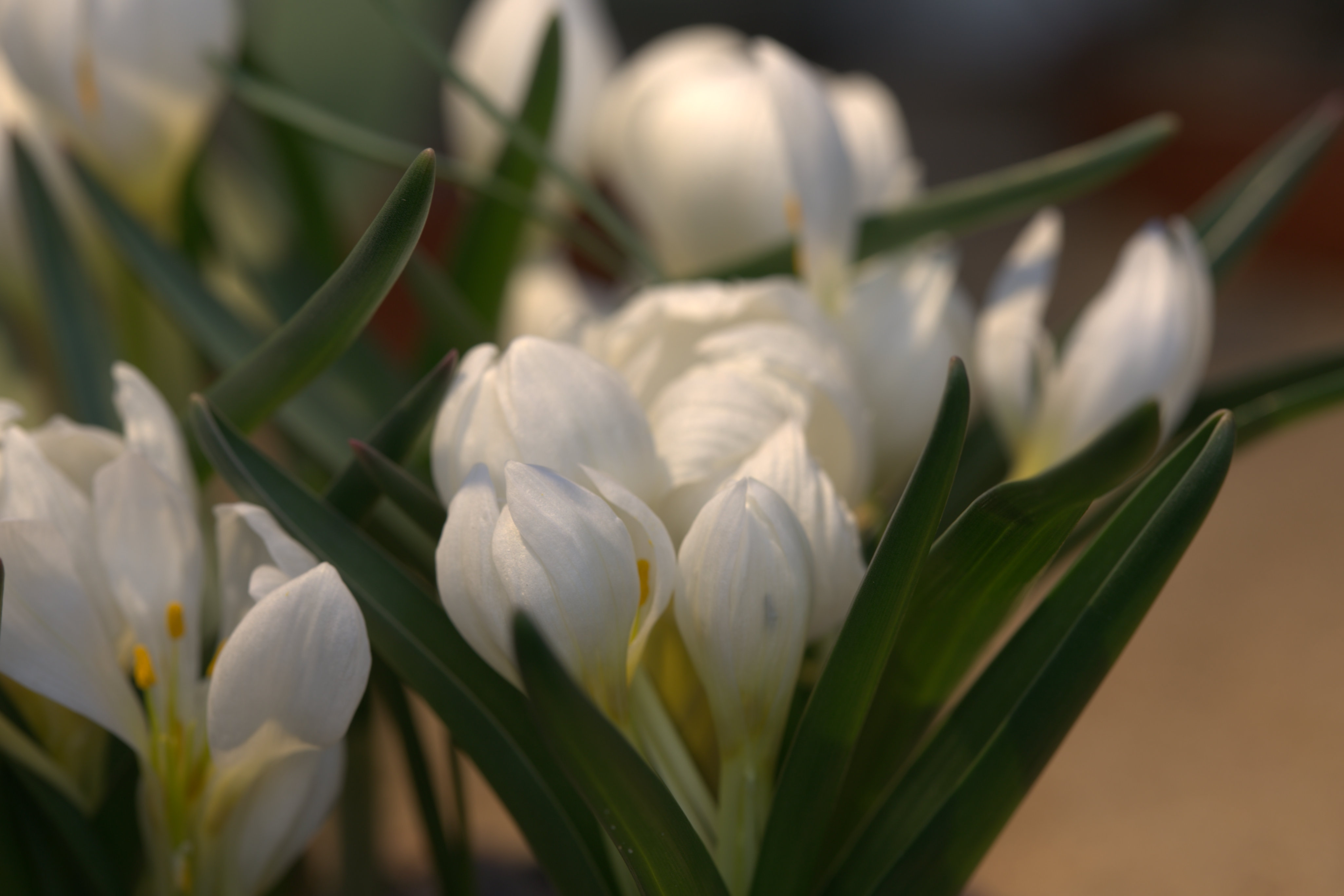 Colchicum trigynum in Gothenburg Botanical Garden. Plant id: 2006-2015 p W -- Pasche